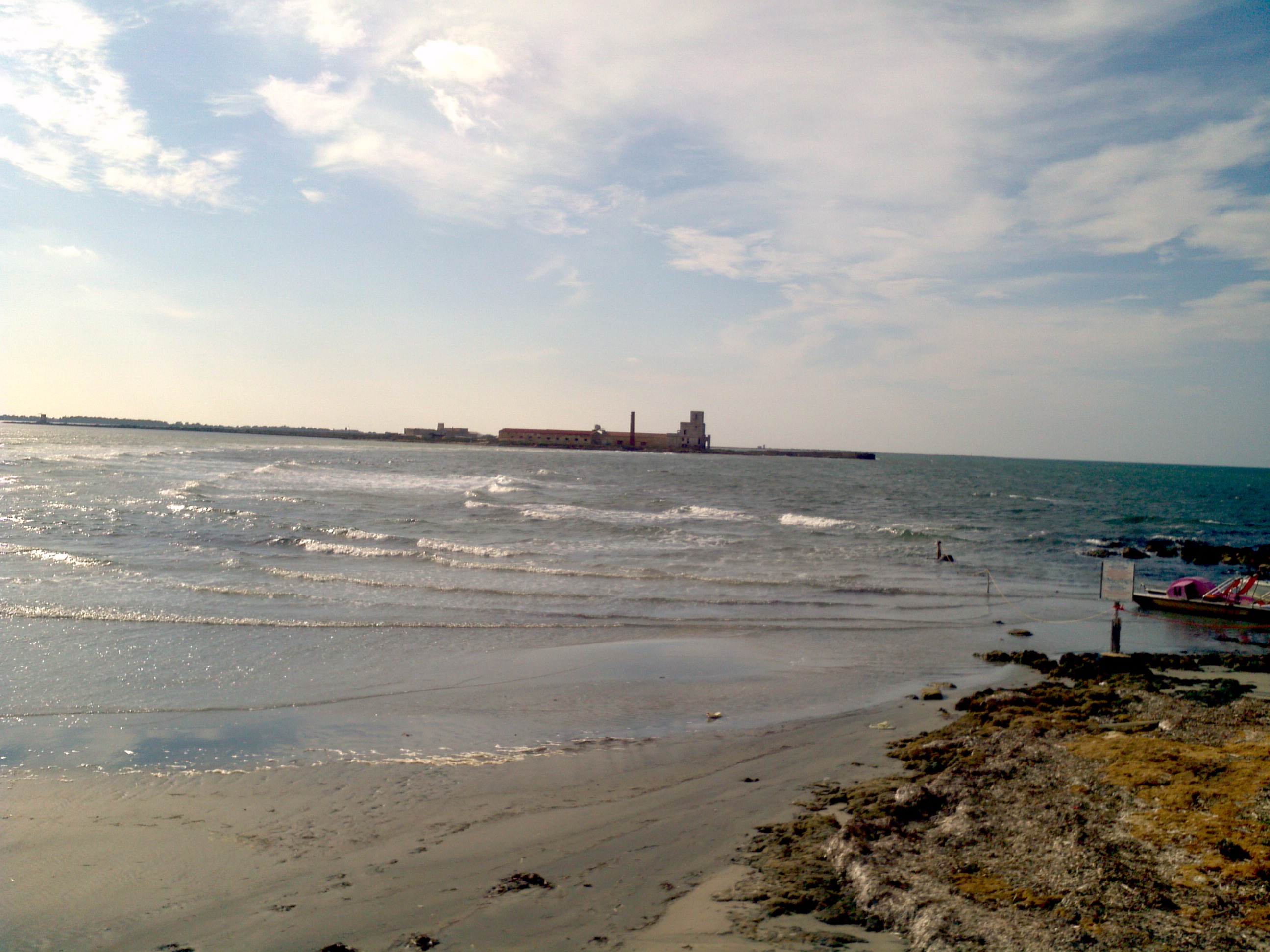 Stagnone island